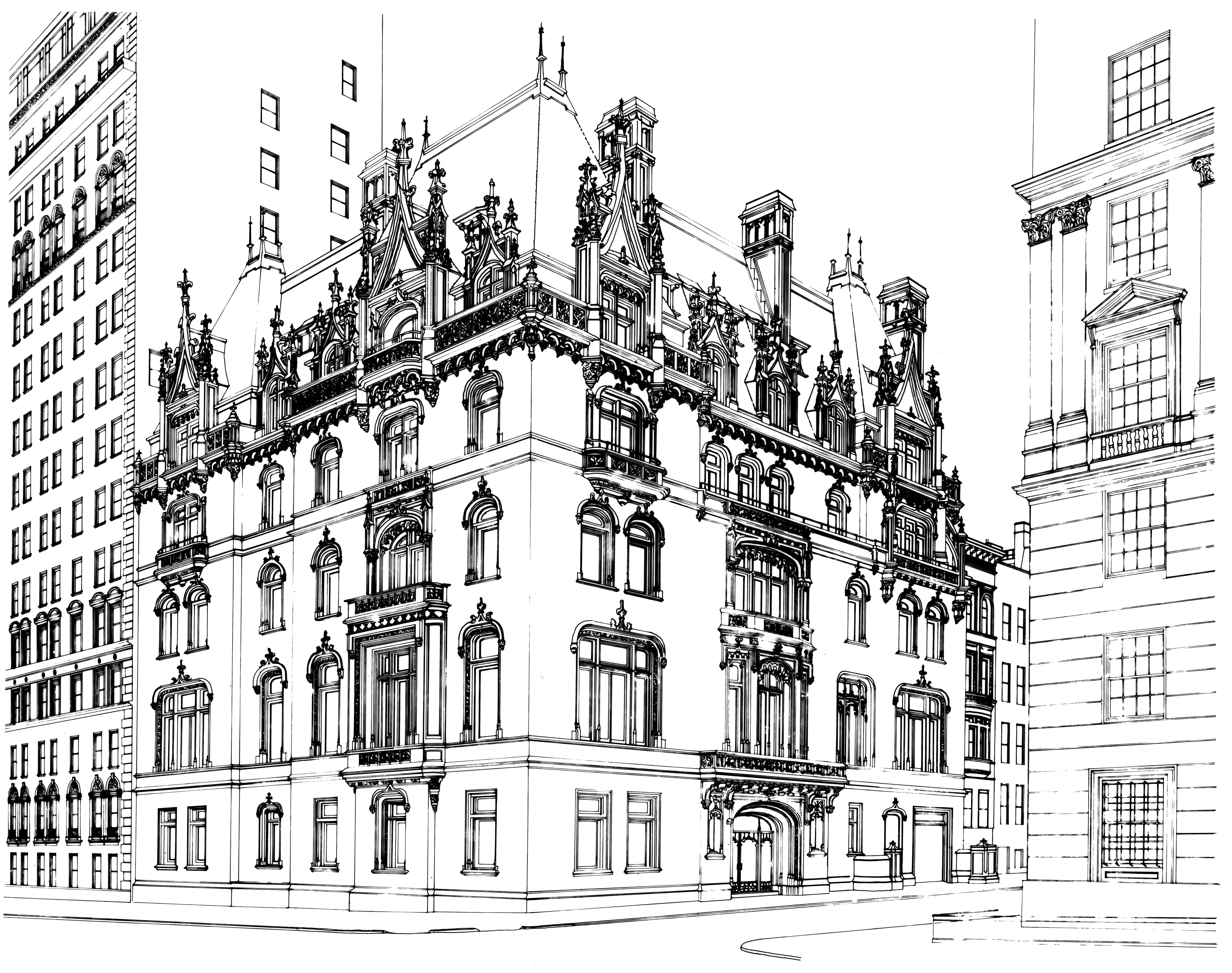 Jewish Museum building line drawing